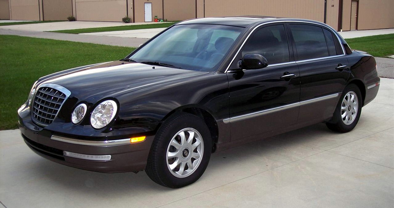 Author: Alison Chan (me) (user:Crazytales) Image has been used externally at Australian Car Advice